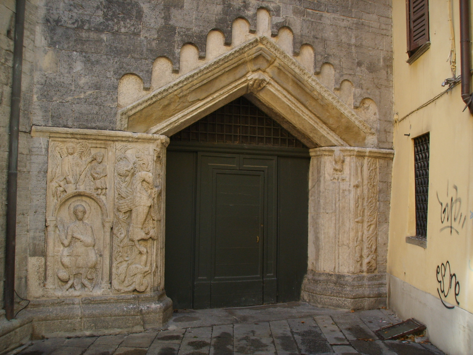 The back door of San Fedele basilica, Como (Italy), decorated with romanesque reliefs.